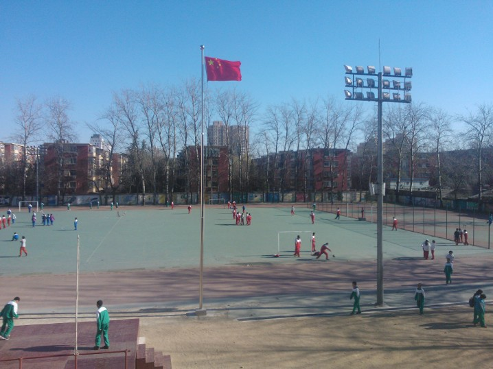 A picture of the playground of the Affiliated High School of Peking University during lunch break.